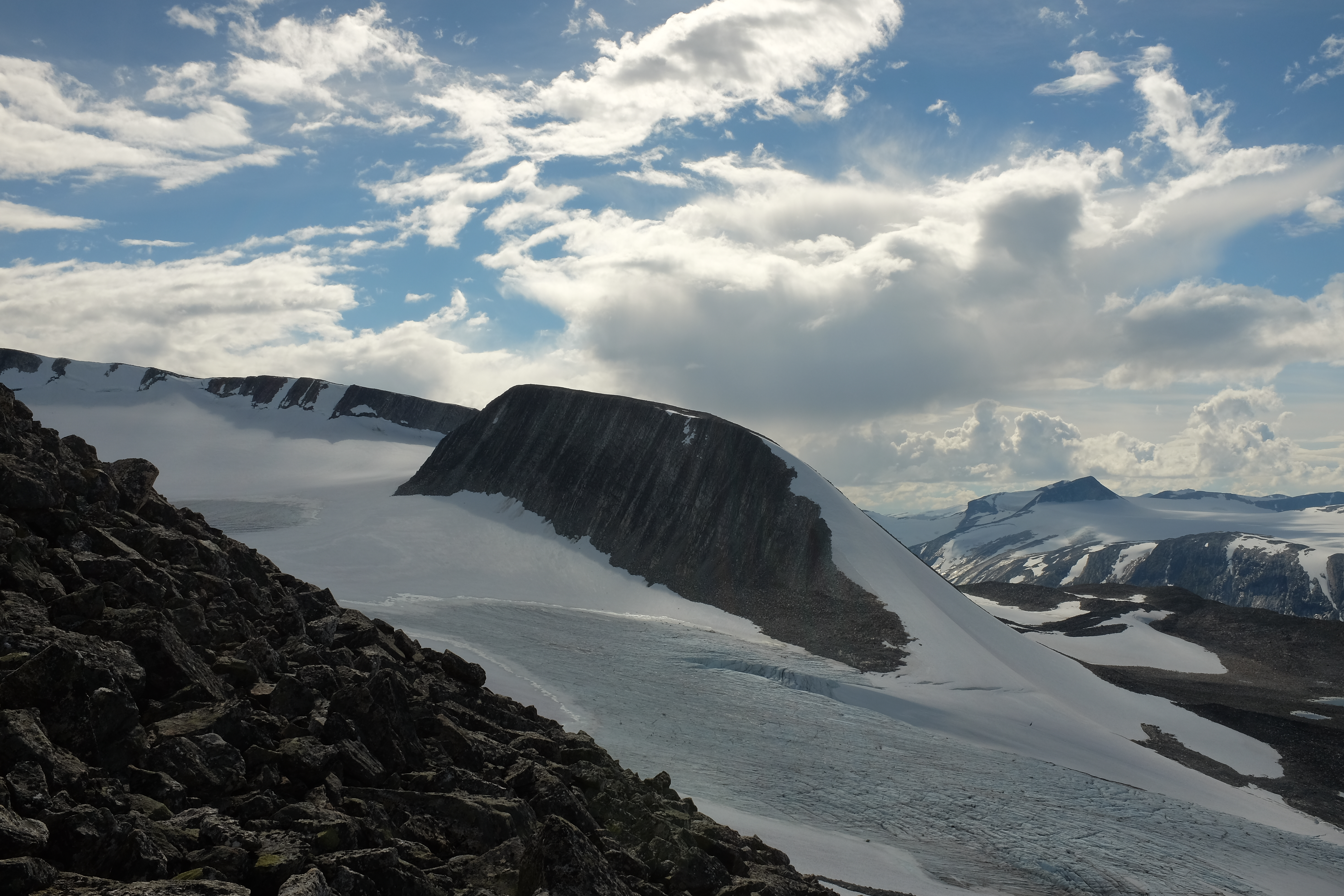 Låven mountain on the north side of the massif Hestbrepiggane in Skjåk municipality in Oppland.